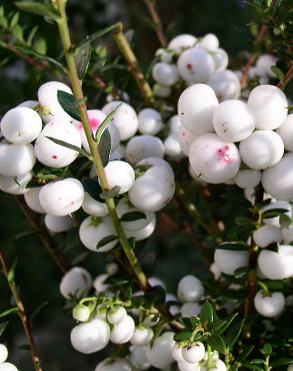 Fruits of pernettya mucronata, in my garden